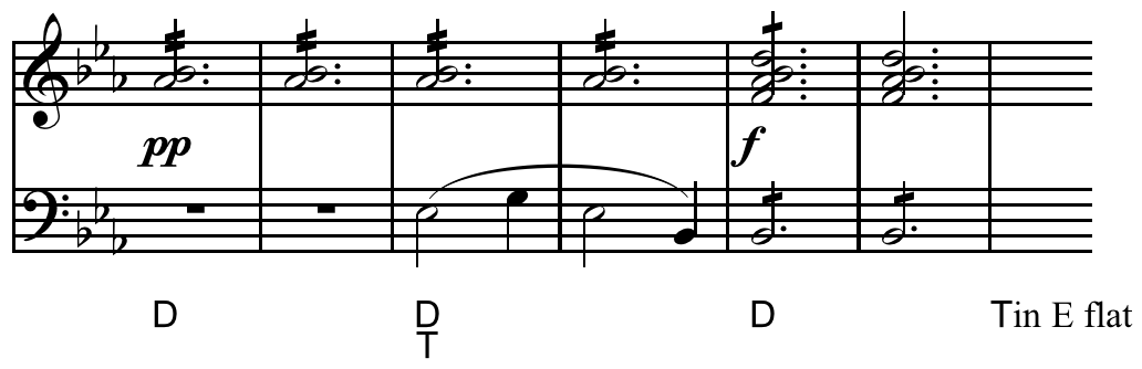 Polyvalency in Beethoven (Leeuw 2006, 88).